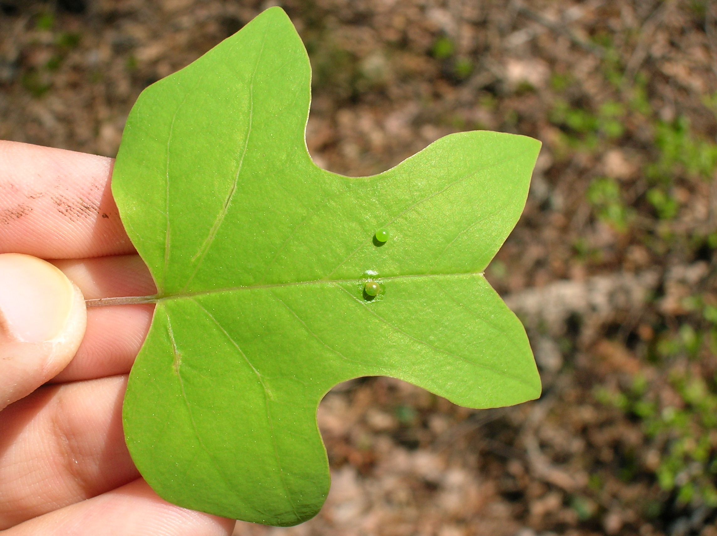 Papilio glaucus eggs on a poplar leaf. The top one was layed seconds before the picture was taken, the second one is in a later stage of development.